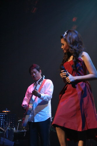 Doobadoo at Babb Prapas Concert's concert at National Cultural Center, Sunday 6th July, 2008.